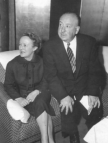 Alfred Hitchcock and his wife